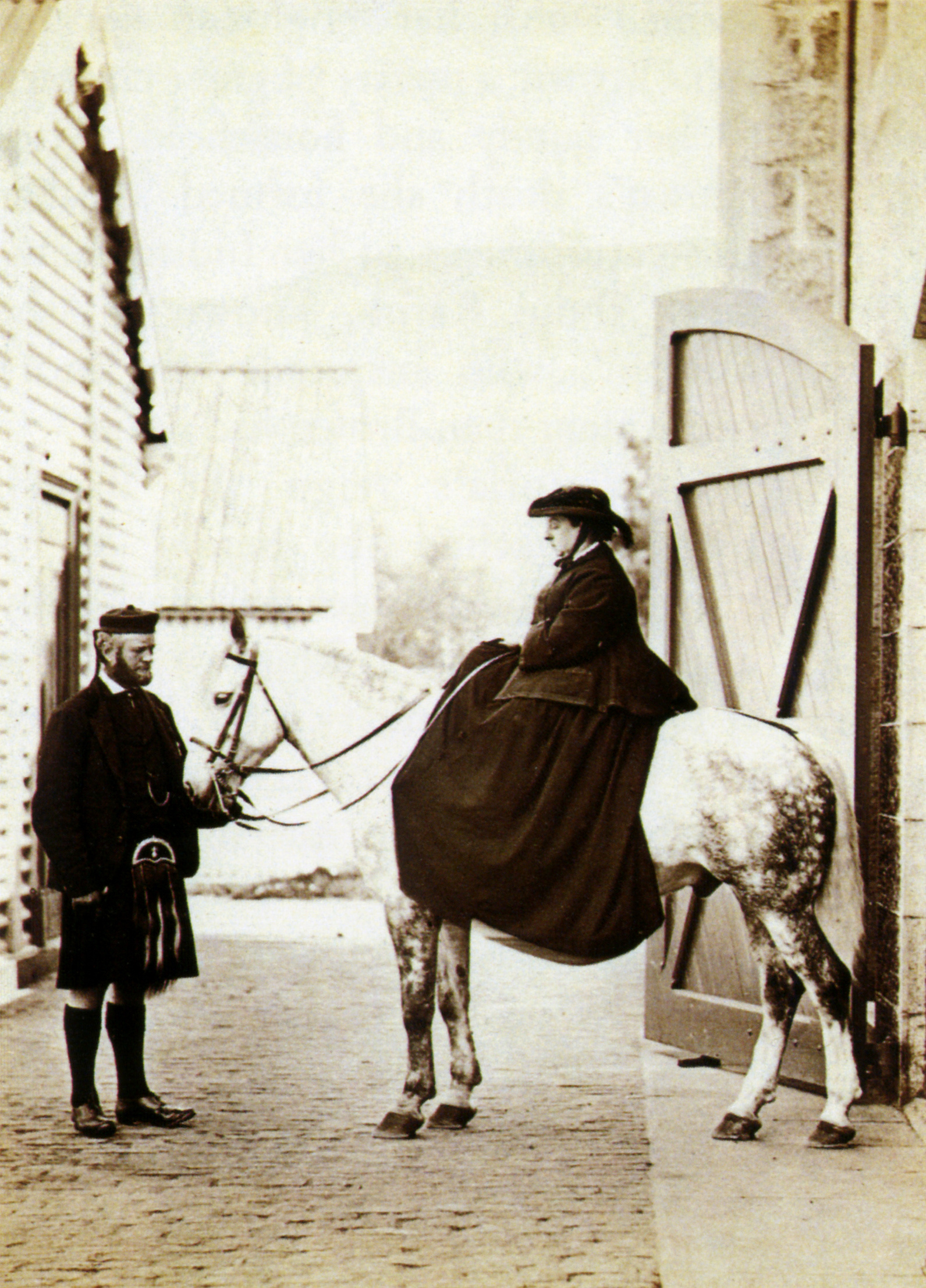 John Brown and Queen Victoria This image is a JPEG version of the original PNG image at File: Queen Victoria mounted and John Brown by W. and D. Downey.png. Generally, this JPEG version should be used when displaying the file from Commons, in order to reduce the file size of thumbnail images. However, any edits to the image should be based on the original PNG version in order to prevent generation loss, and both versions should be updated. Do not make edits based on this version. See here for more information.